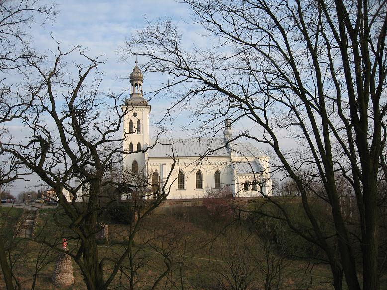 Chełmno nad Nerem (ger. Colmhuf - Kulmhof was established in December 1941 the first german-nazi extermination camp, the Polish village of Chelmno District voice - Kolo, 70 km west of Lodz. Chelmno camp was the first camp gas mass murdered in the "final solution\". He was the first deat